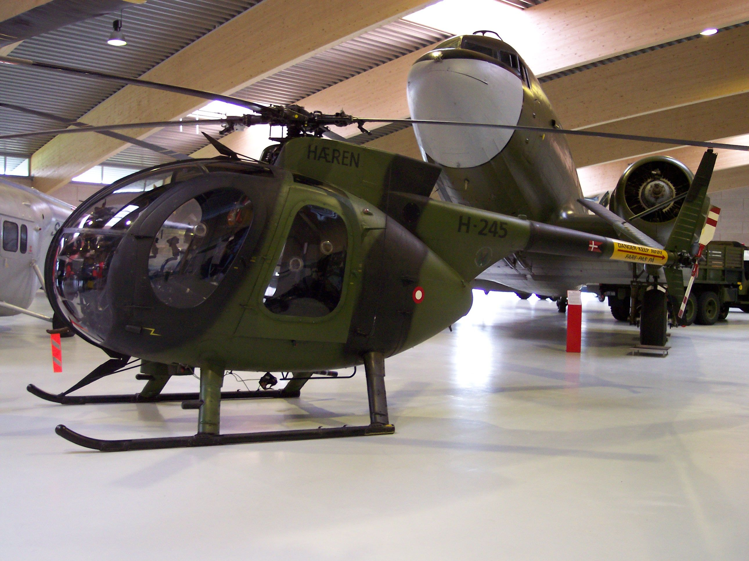 Hughes 500M Cayuse H-245